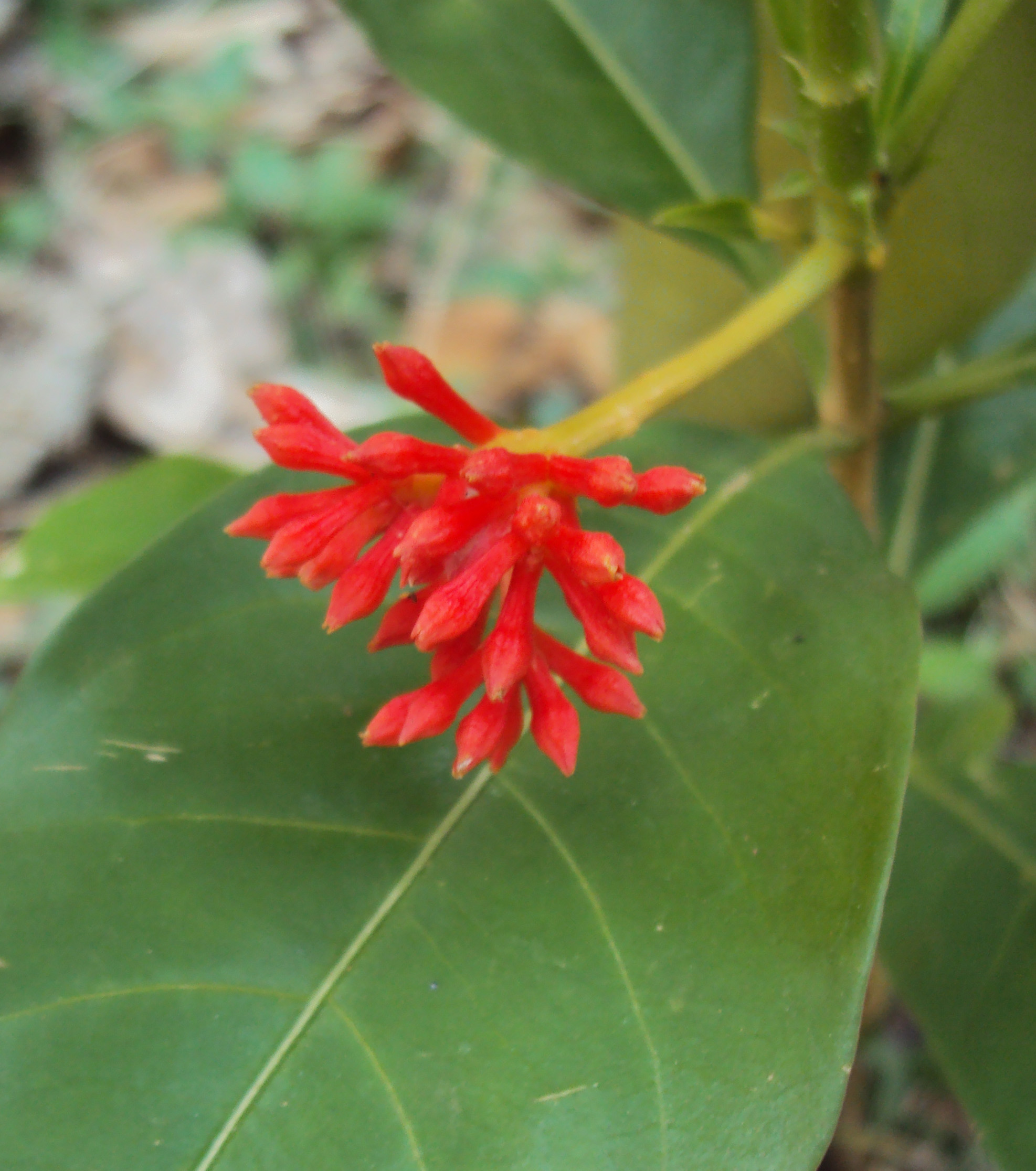 Rauvolfia serpentina